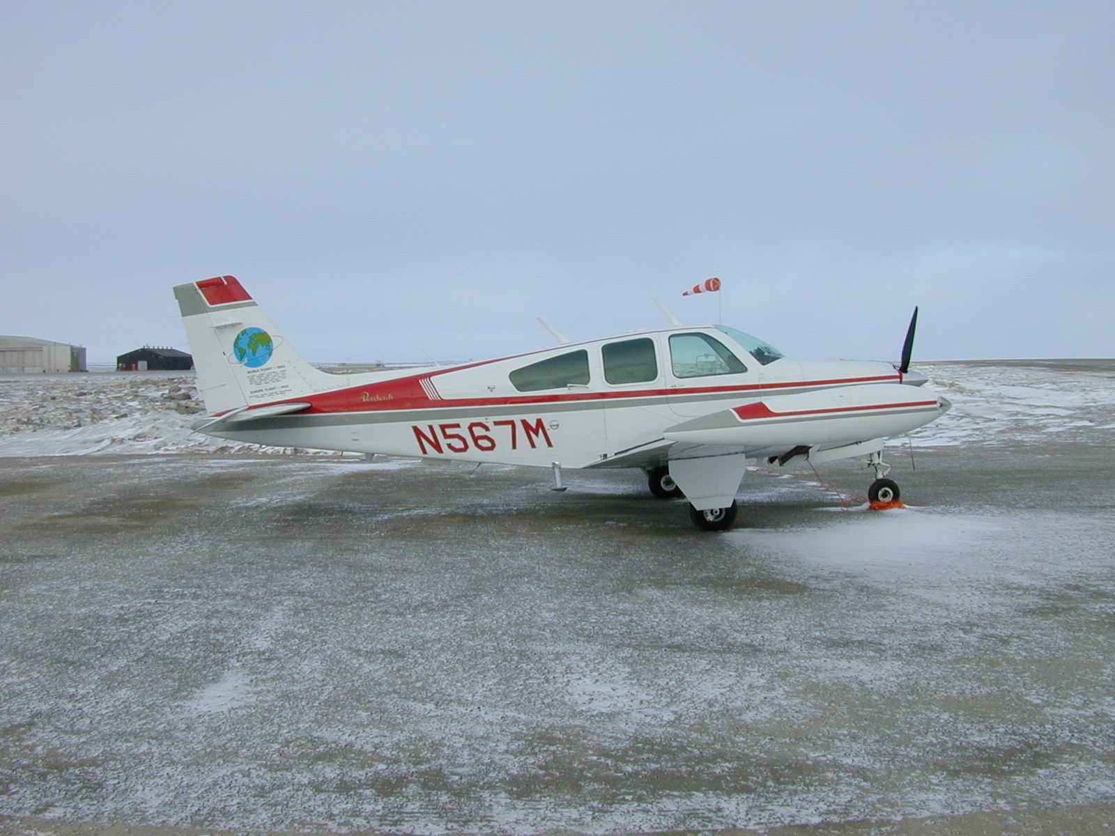 N567M Beechcraft Bonanza F33A (BE33) Picture taken 10th June 1999 at 00:35 MDT (10th June 1999 06:35Z) at Cambridge Bay Airport, Nunavut, Canada